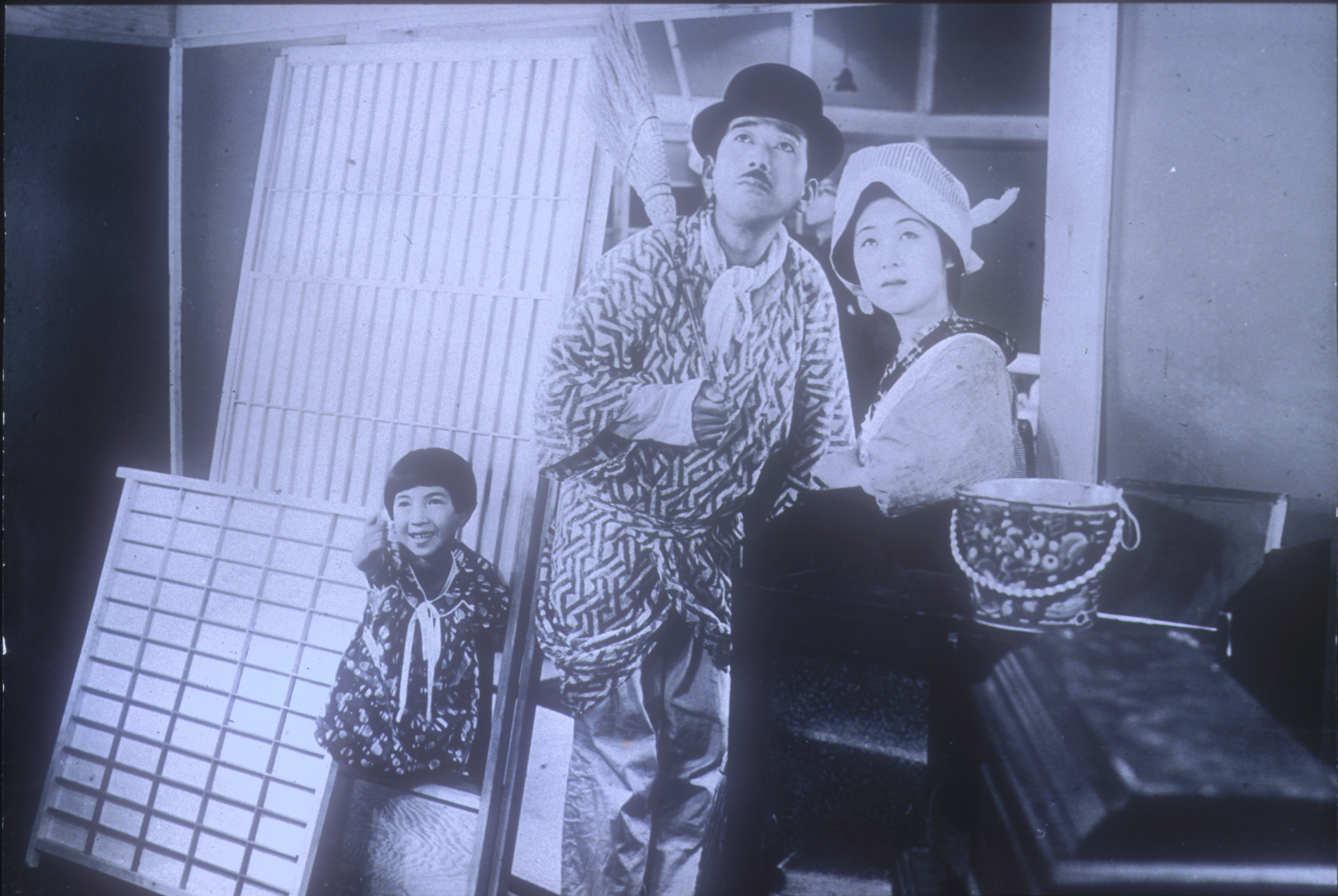 Description: Low-resolution reproduction of screenshot from the movie Madamu to nyobo (The Neighbor's Wife and Mine; 1931), featuring actors Mitsuko Ichimura, Atsushi Watanabe, and Kinuyo Tanaka Original rights holder: Shochiku Source: Scan from DVD